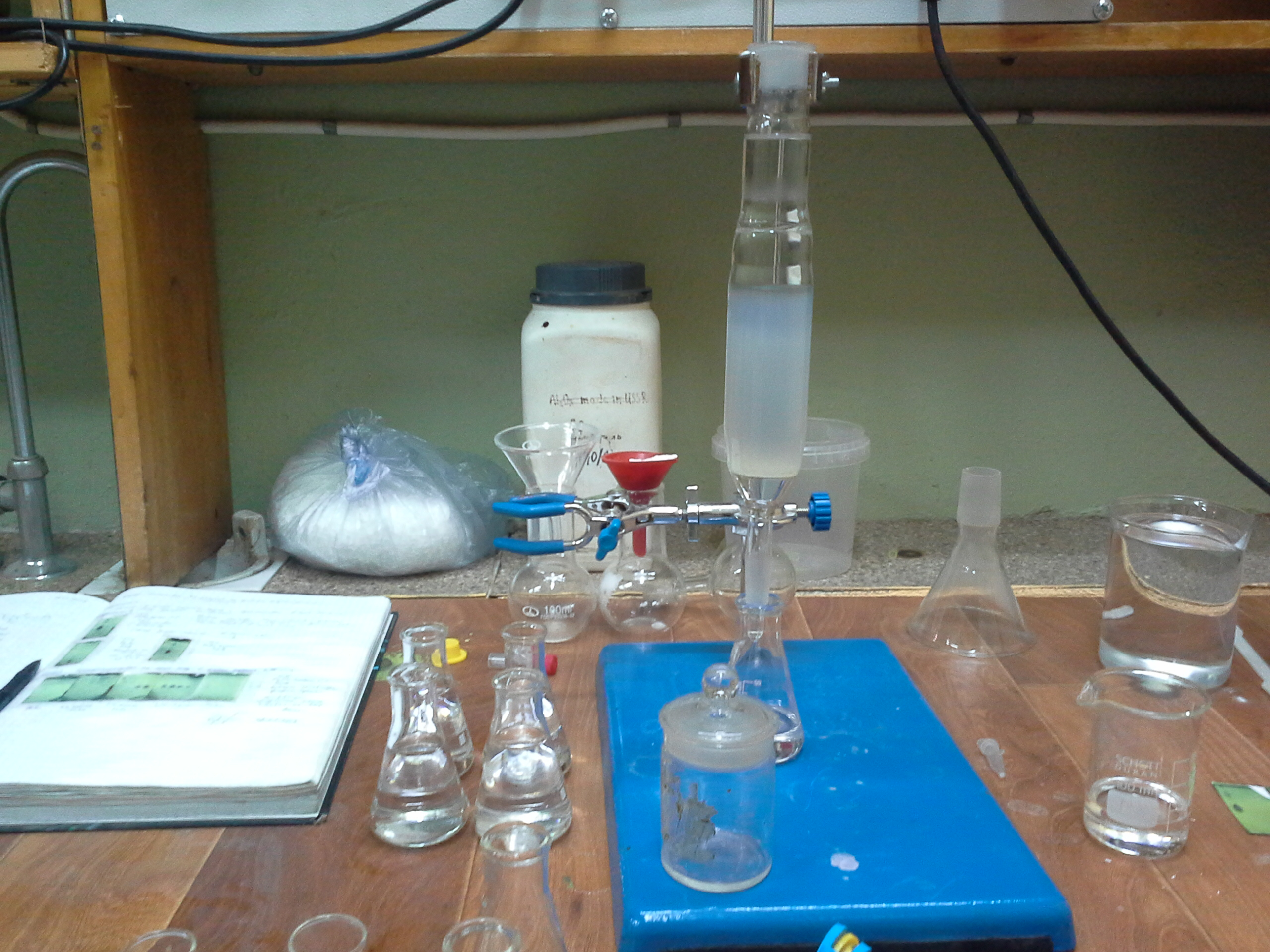 Column chromatography